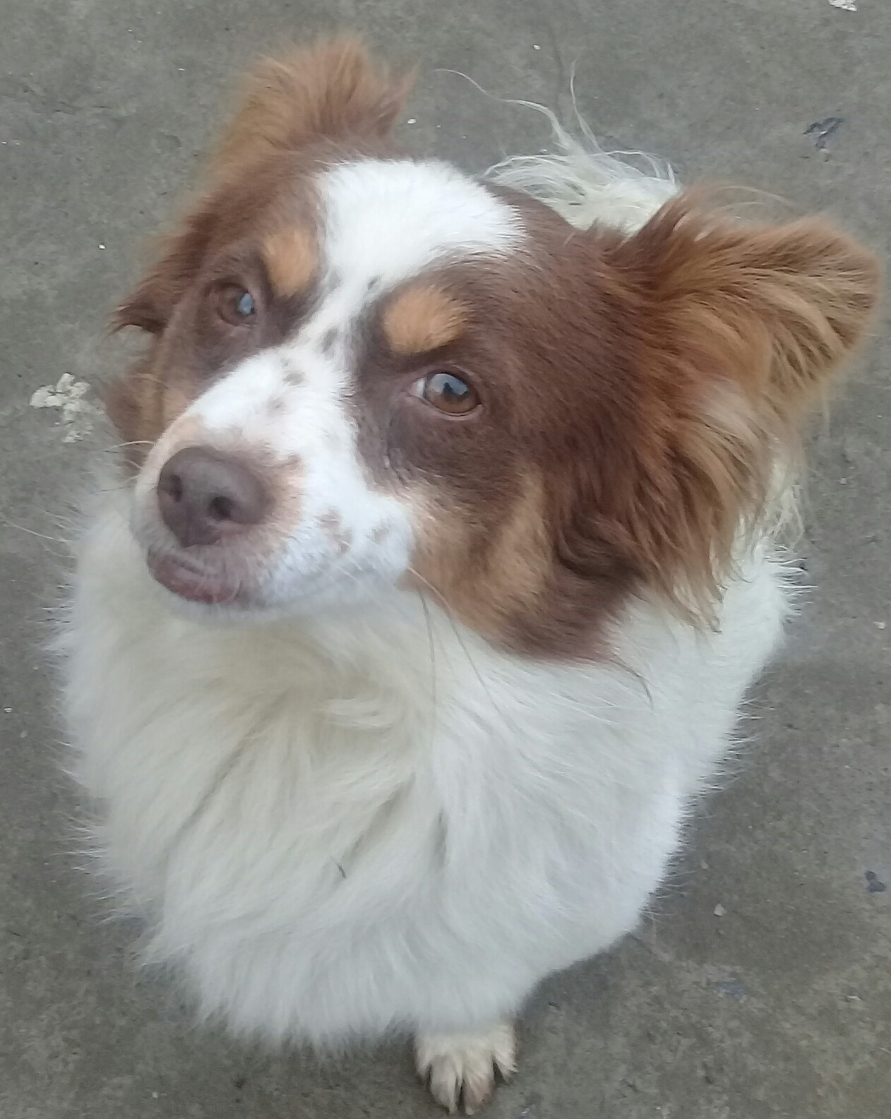 A 3 years old Border Collie shows its companion to human